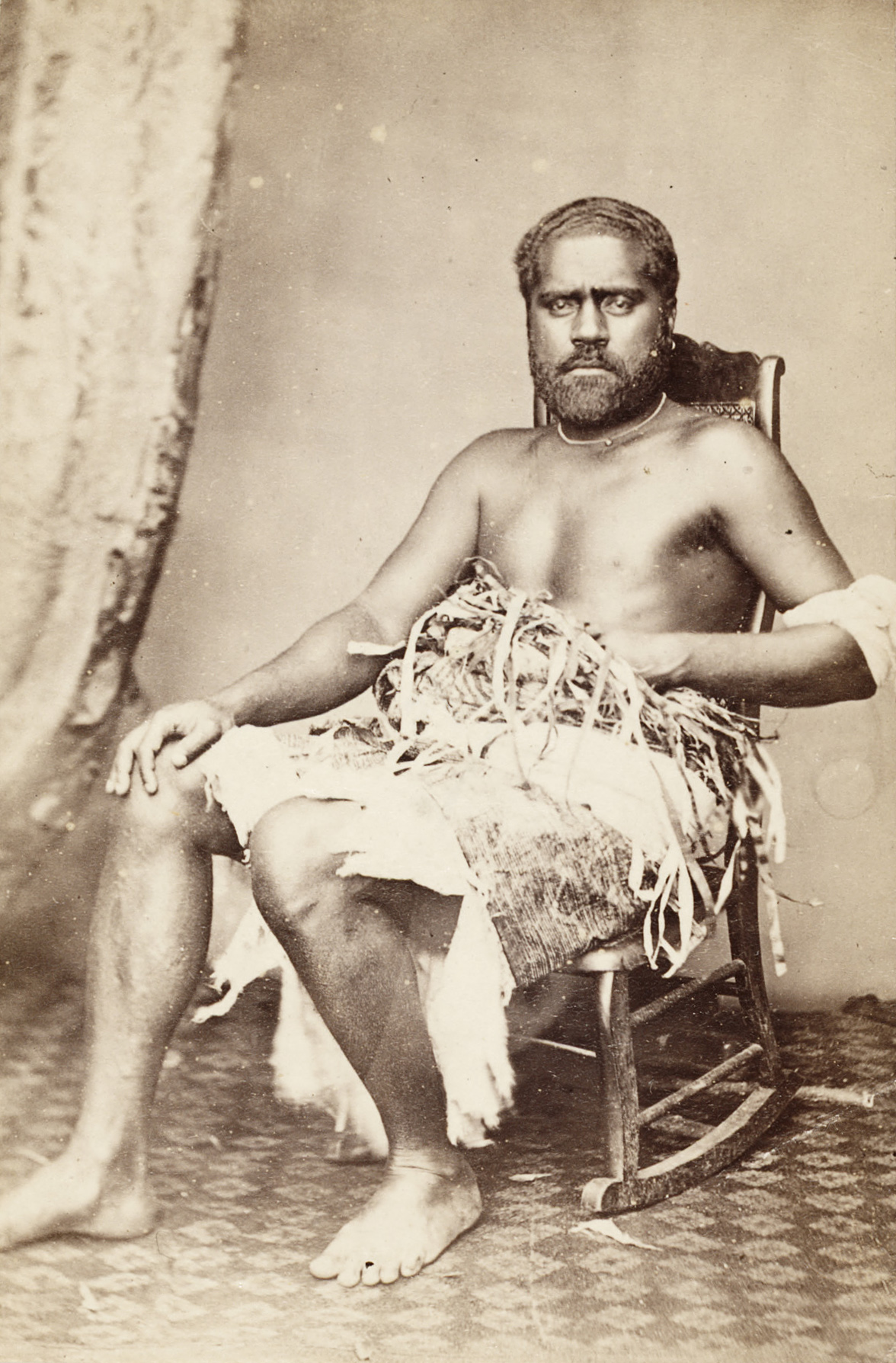 Ratu Abel, first son of Cakobau.